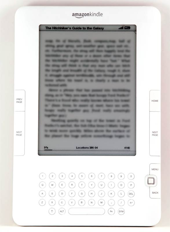 The Amazon Kindle 2